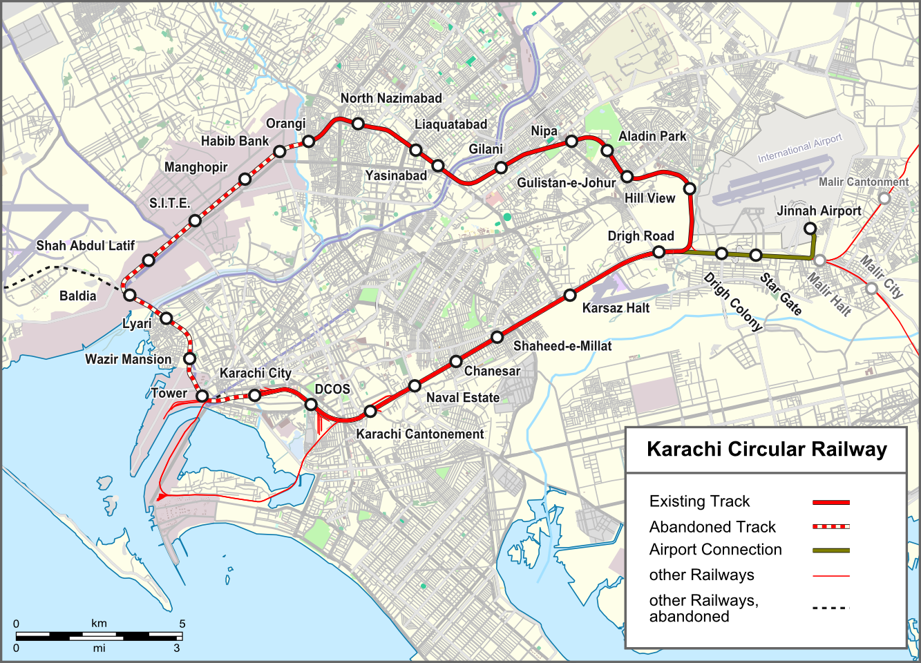 Location map of the Karachi Circular Railway